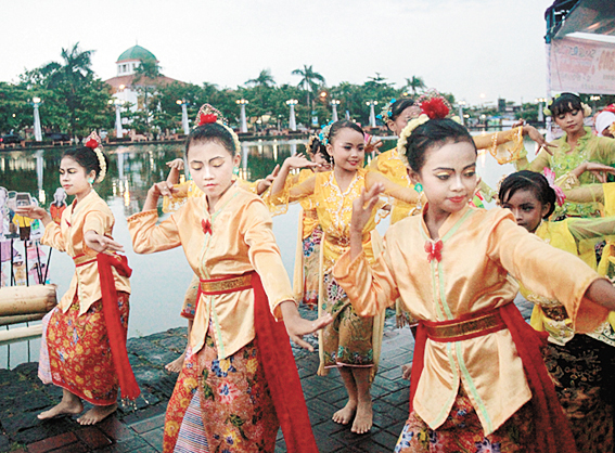 Tari Semarangan